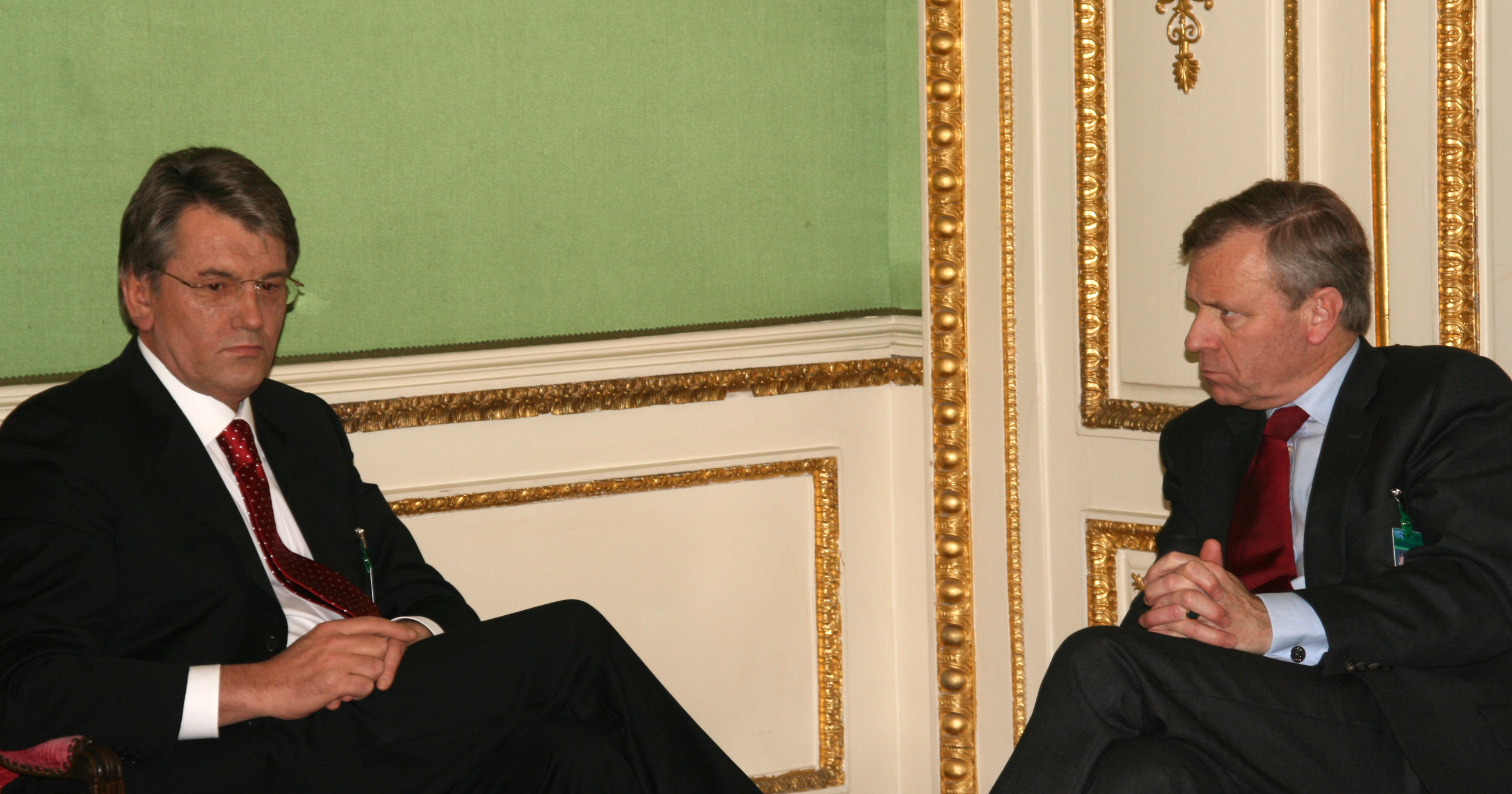 43rd Munich Security Conference 2007: The Secretary General of the NATO, Jaap de Hoop Scheffer (ri) in Conversation with Wiktor Juschtschenko, President of Ukraine.